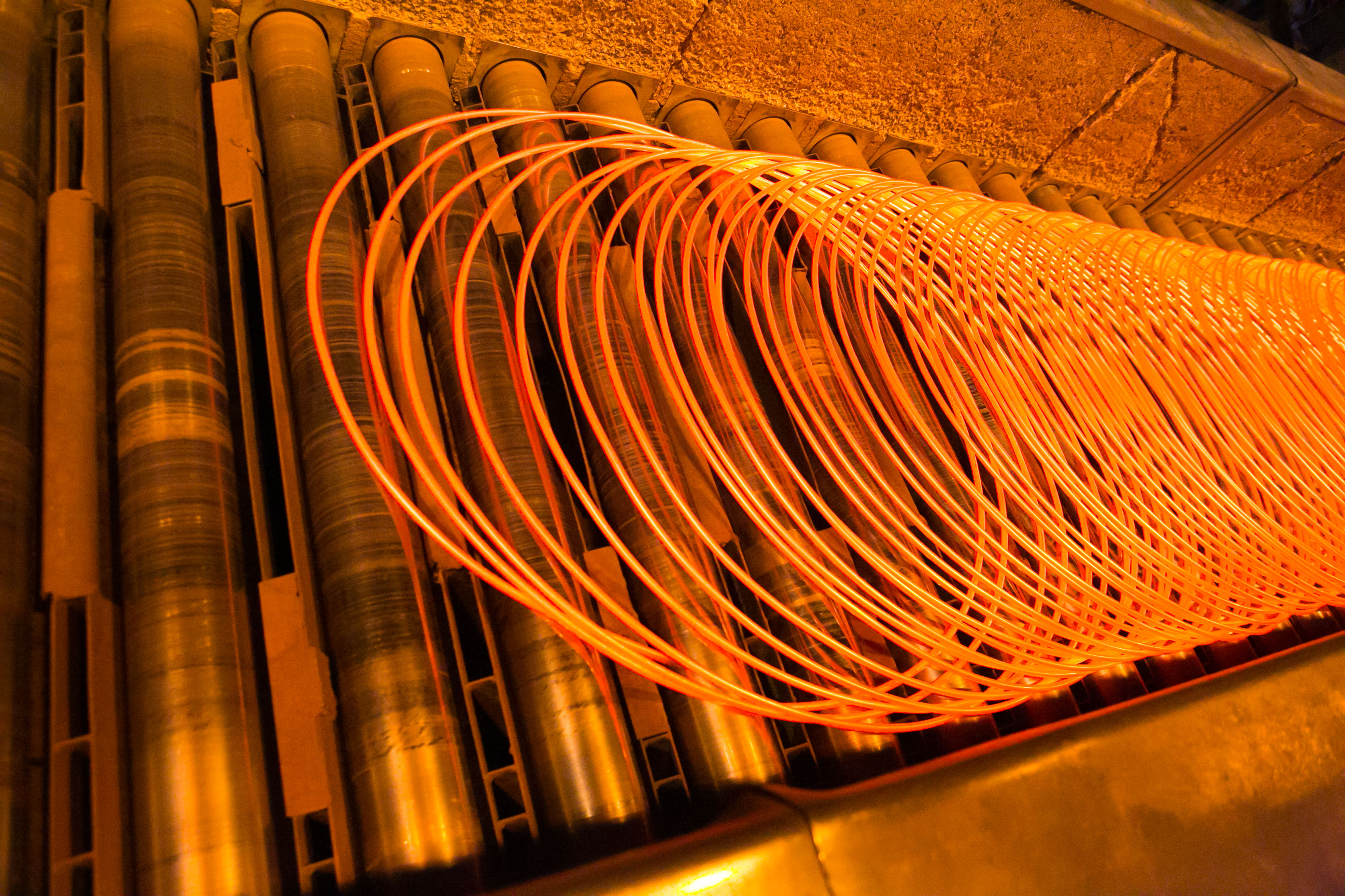 Wire rod production at ArcelorMittal Kryvyi Rih